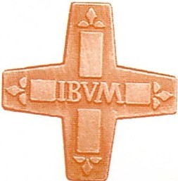 Cross of Institute of Blessed Virgin Mary, founded by Mary Ward in 1609